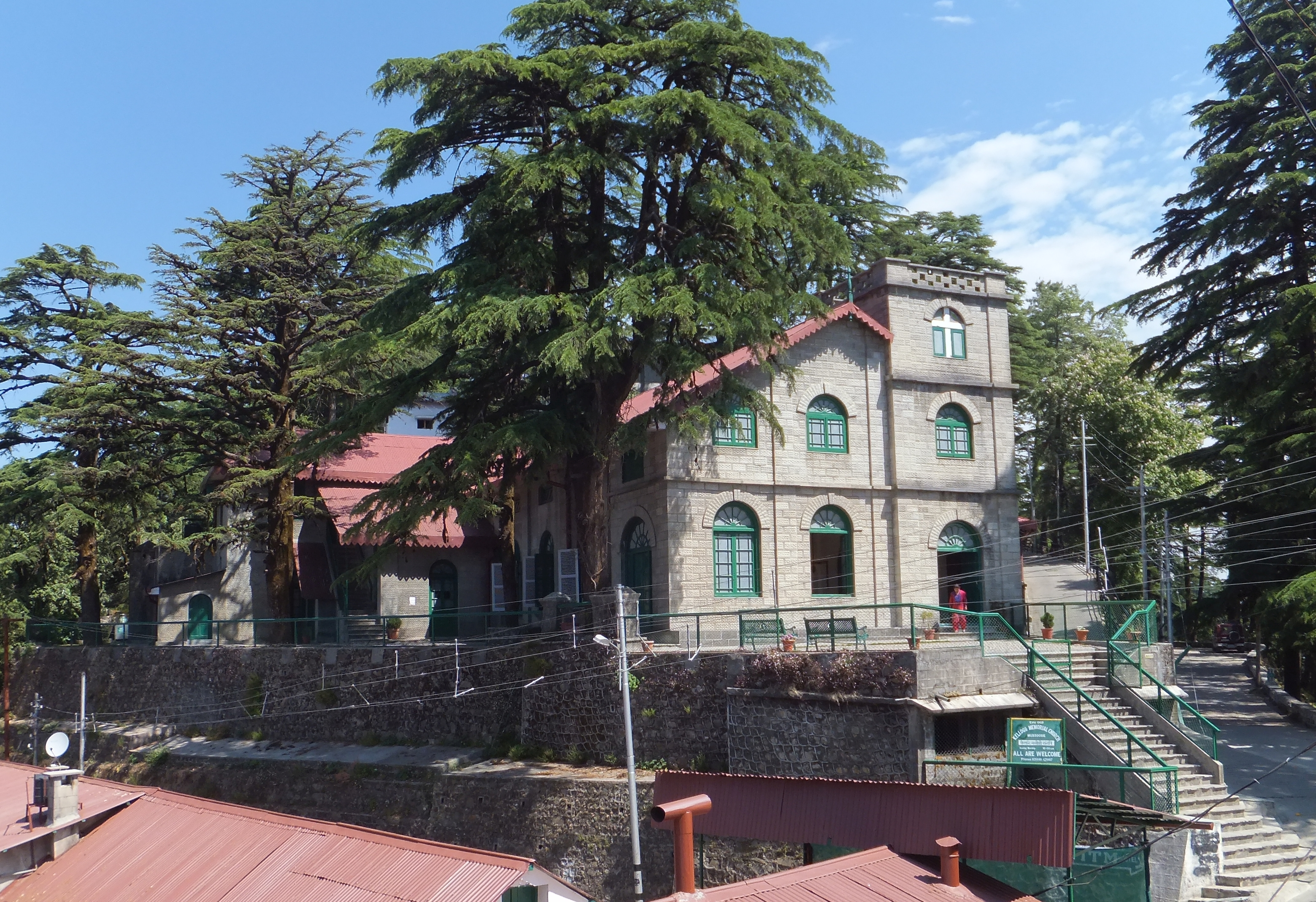 This church was re-named after Samuel Kellogg. It is in Landour which is the army cantonment area of Mussoorie, an old British hill station in the Indian state of Uttarakhand. Over the years it had a couple of major extensions and facelifts.